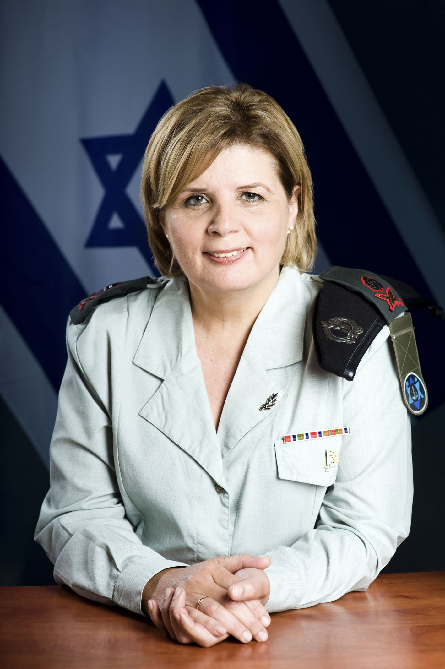 Orna Barbivai